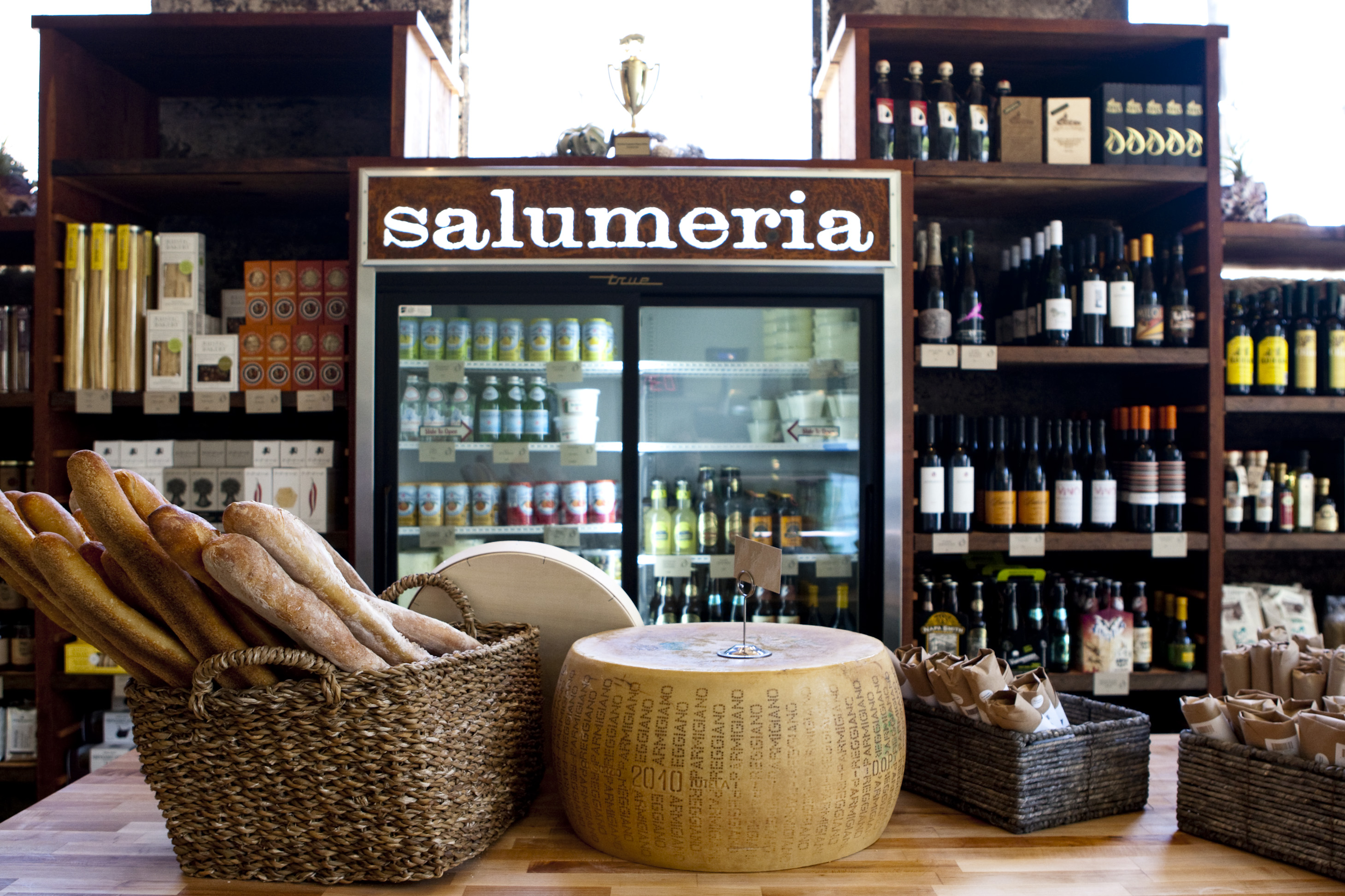 The larder for flour+water.